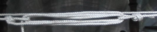 Versatackle Knot tied in Nylon Rope